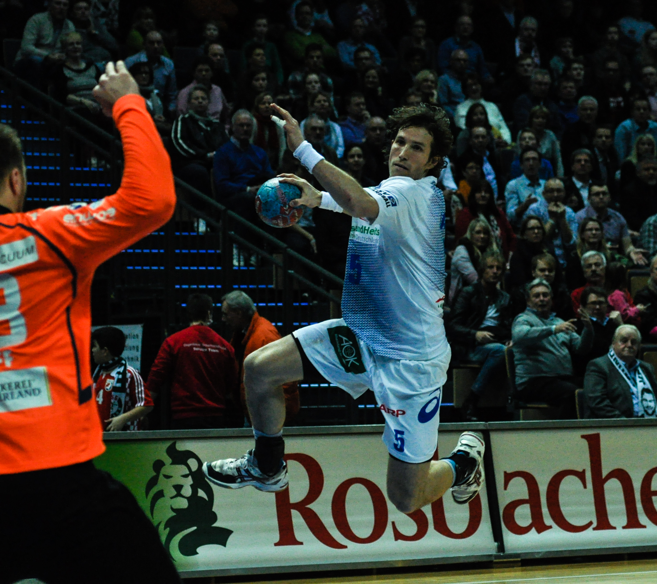 taken on February 8, 2014 during DKB Handball-Bundesliga match between HSG Wetzlar and HSV Hamburg